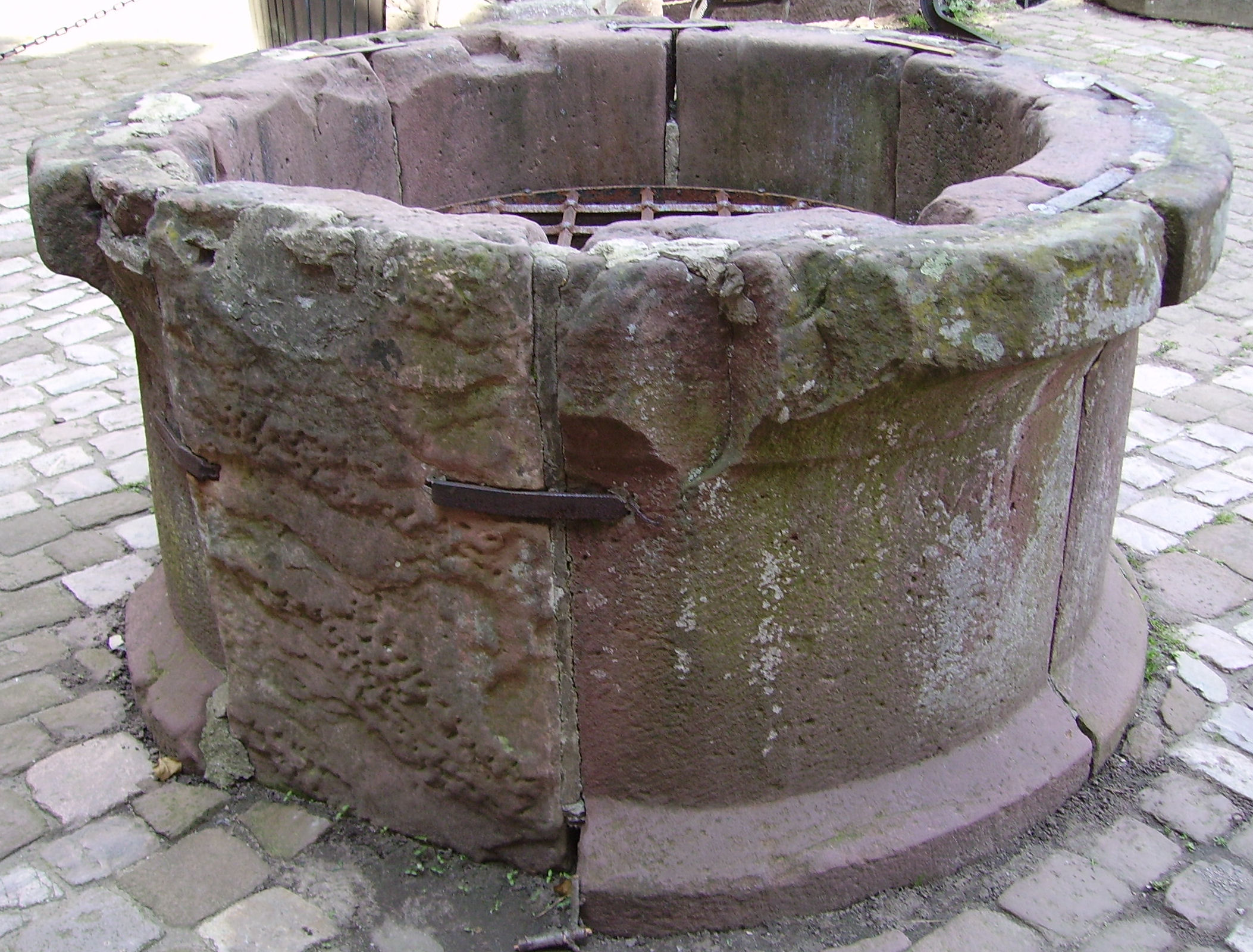 Castle well at Dilsberg Castle, Germany.